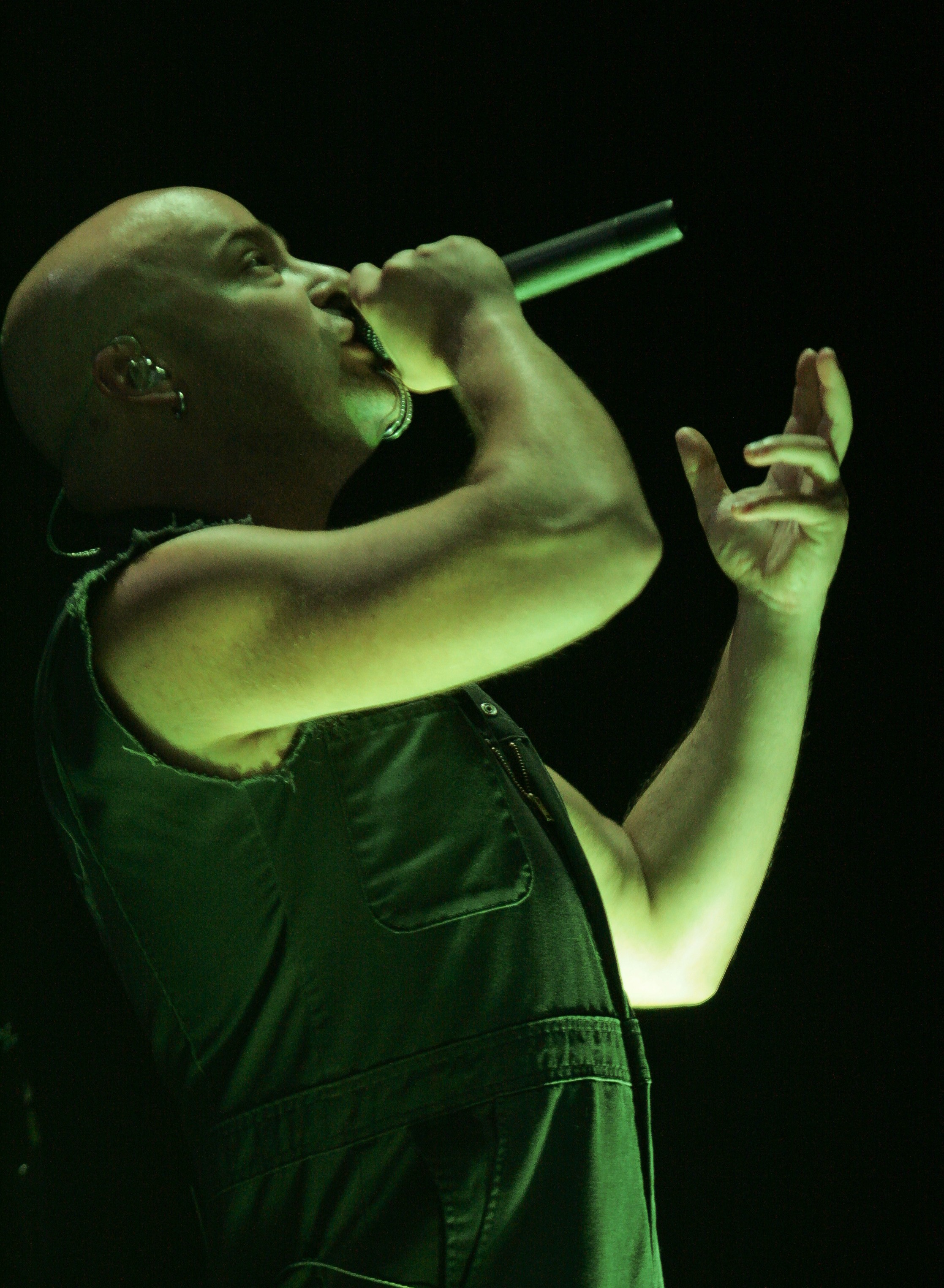 Disturbed singer David Draiman at Mayhem Festival 2011.